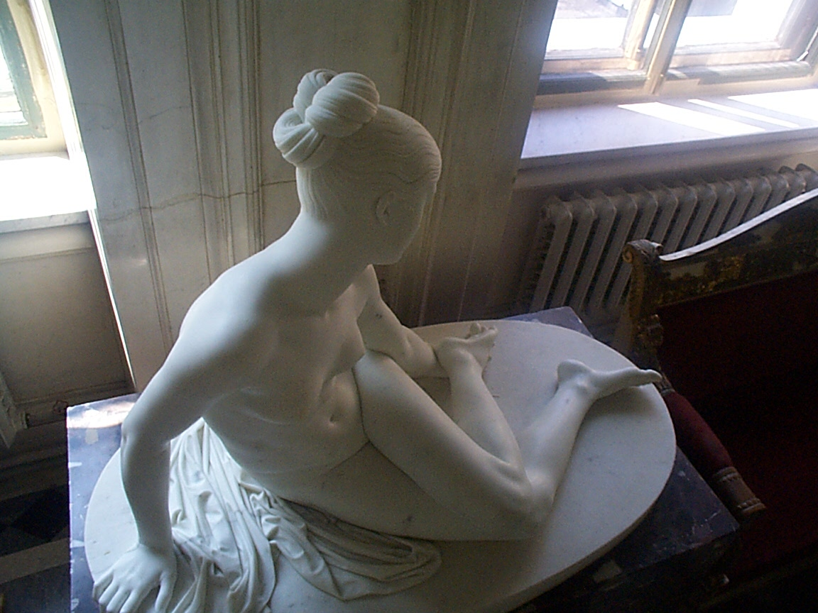 Title: Nymph with a Scorpion Notes: Sculpted 1846-1851 Location: Hermitage, St. Petersburg Photographer: Mak Thorpe, taken 1999.